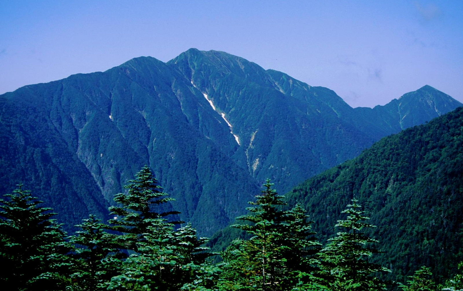 Mount Hijiri seen from Mount Akaishi